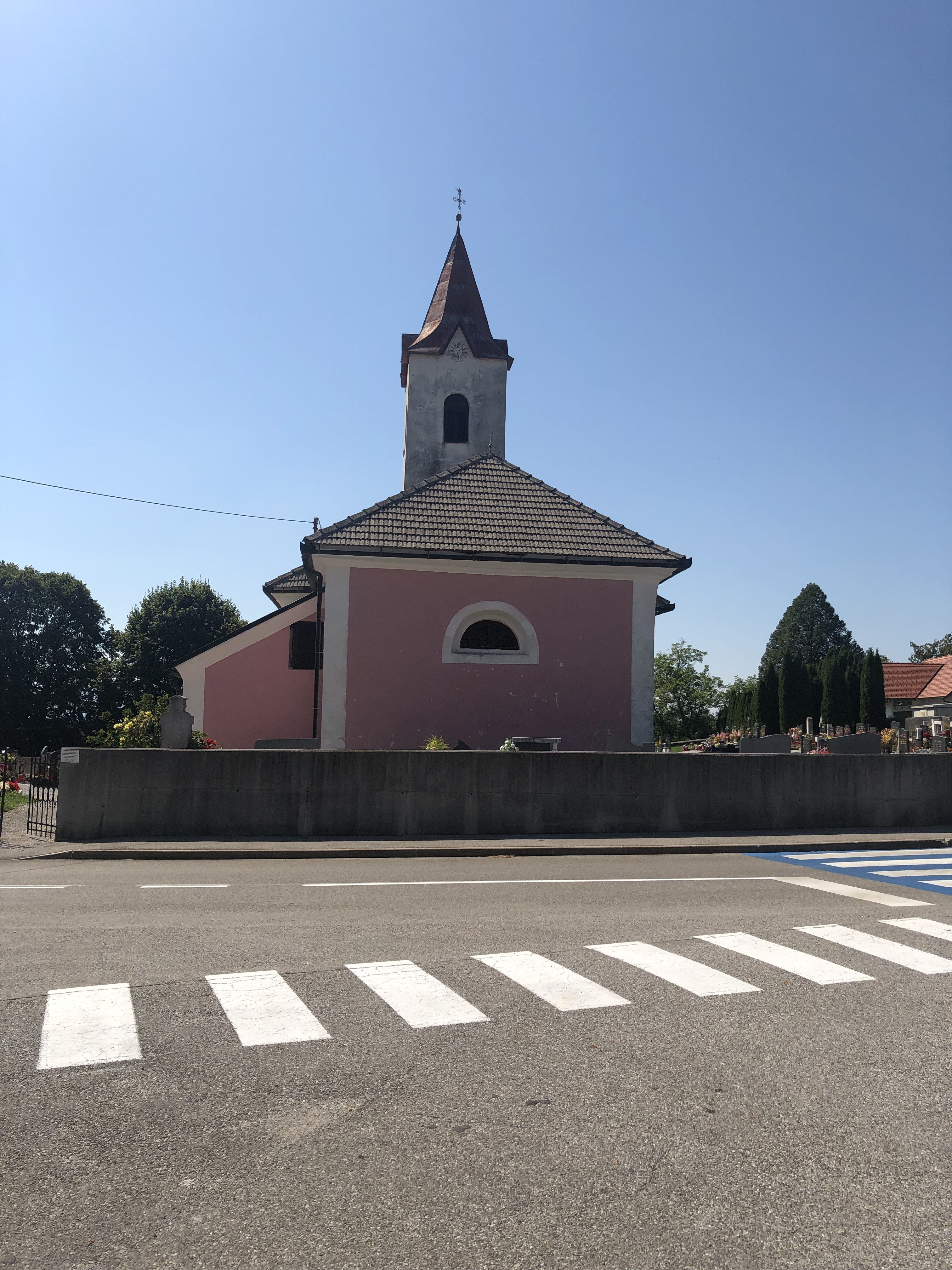 Chruch in Dolž, Slovenia. Dedicated to Saints Cosmas and Damian